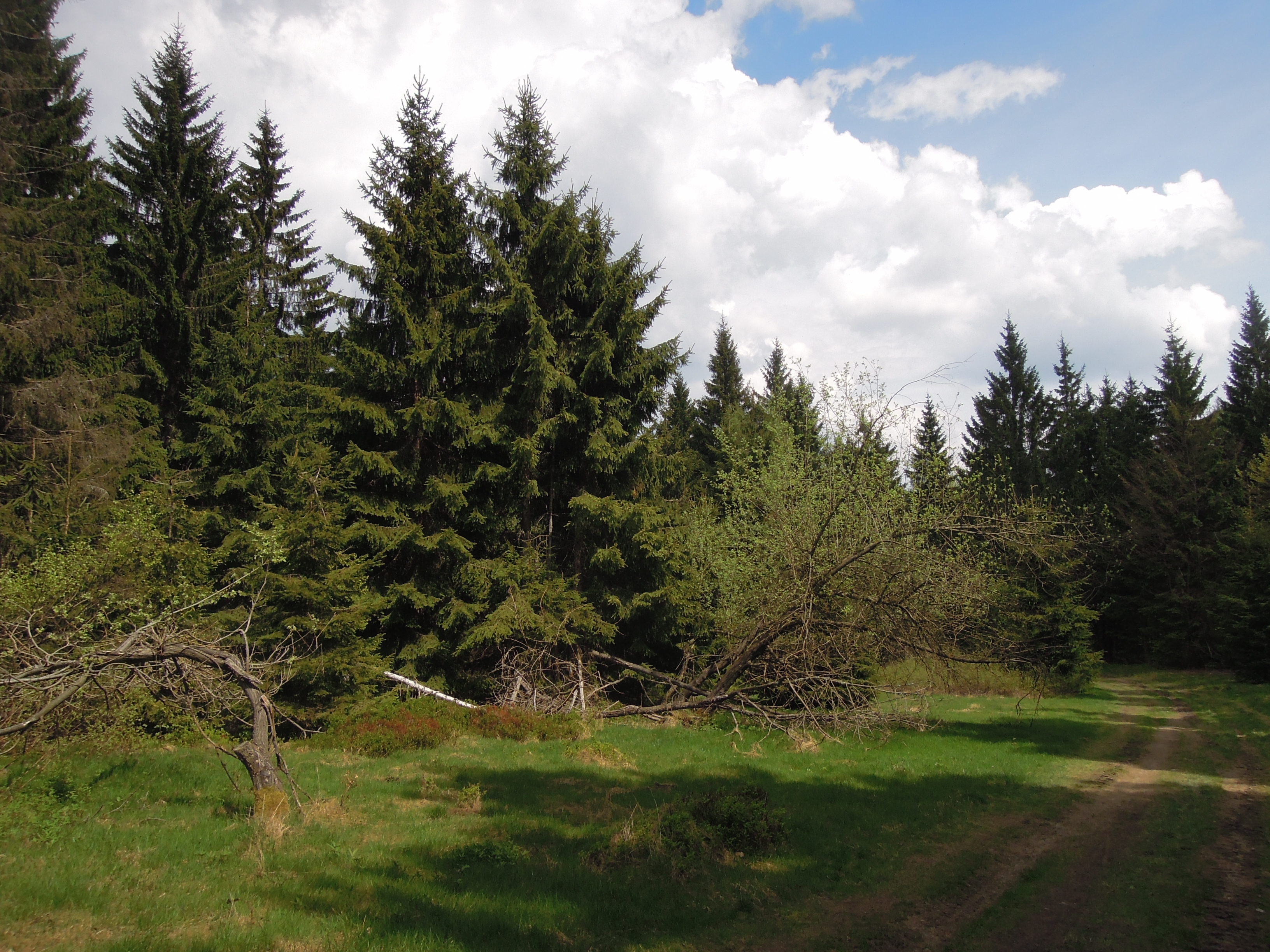 Nature reserve Malý Javorník in Karolinka, Vsetín District, Zlín Region, Czech Republic